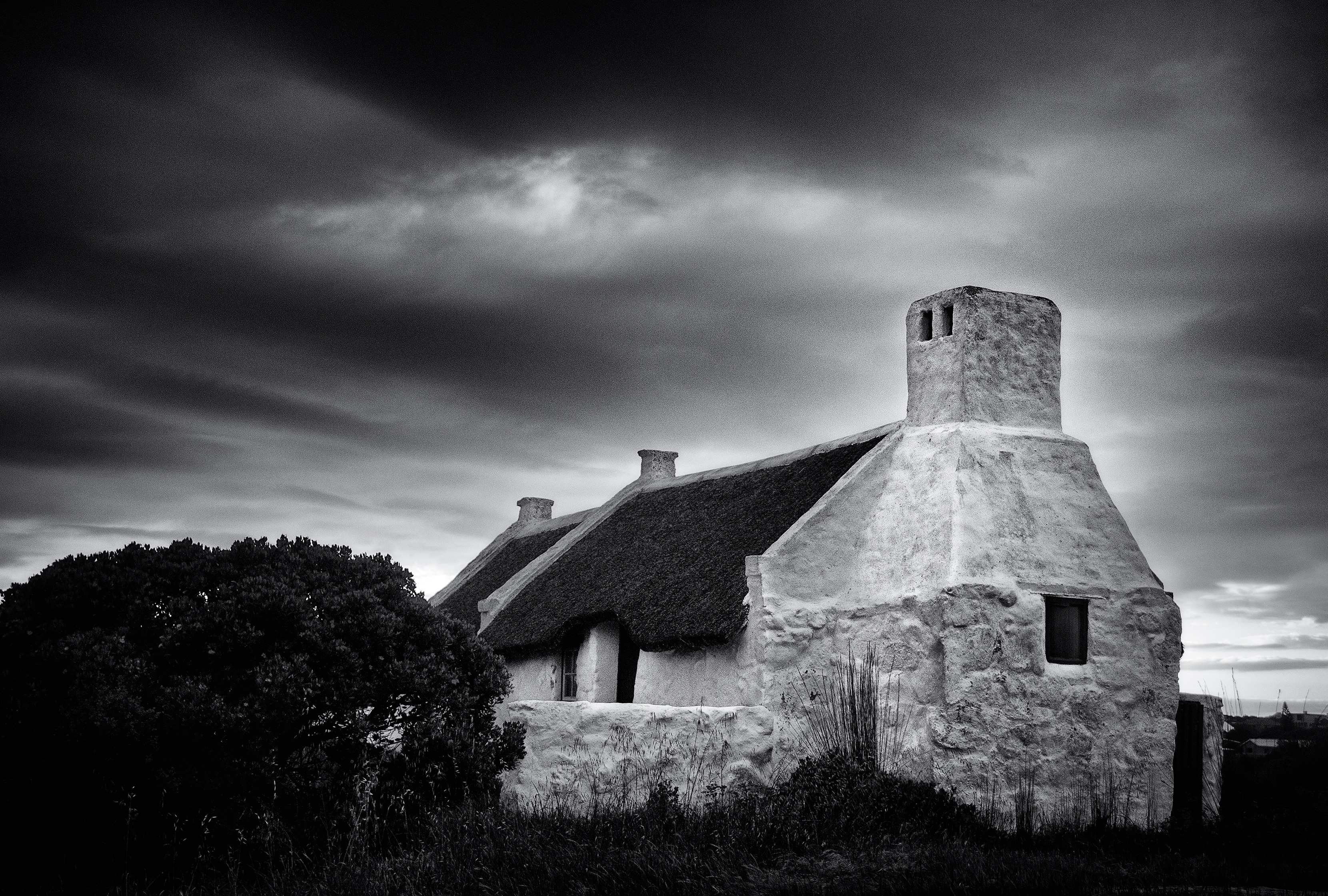 Various captures. This media shows a South African Protected Site with SAHRA file reference 9/2/013/0001/002.